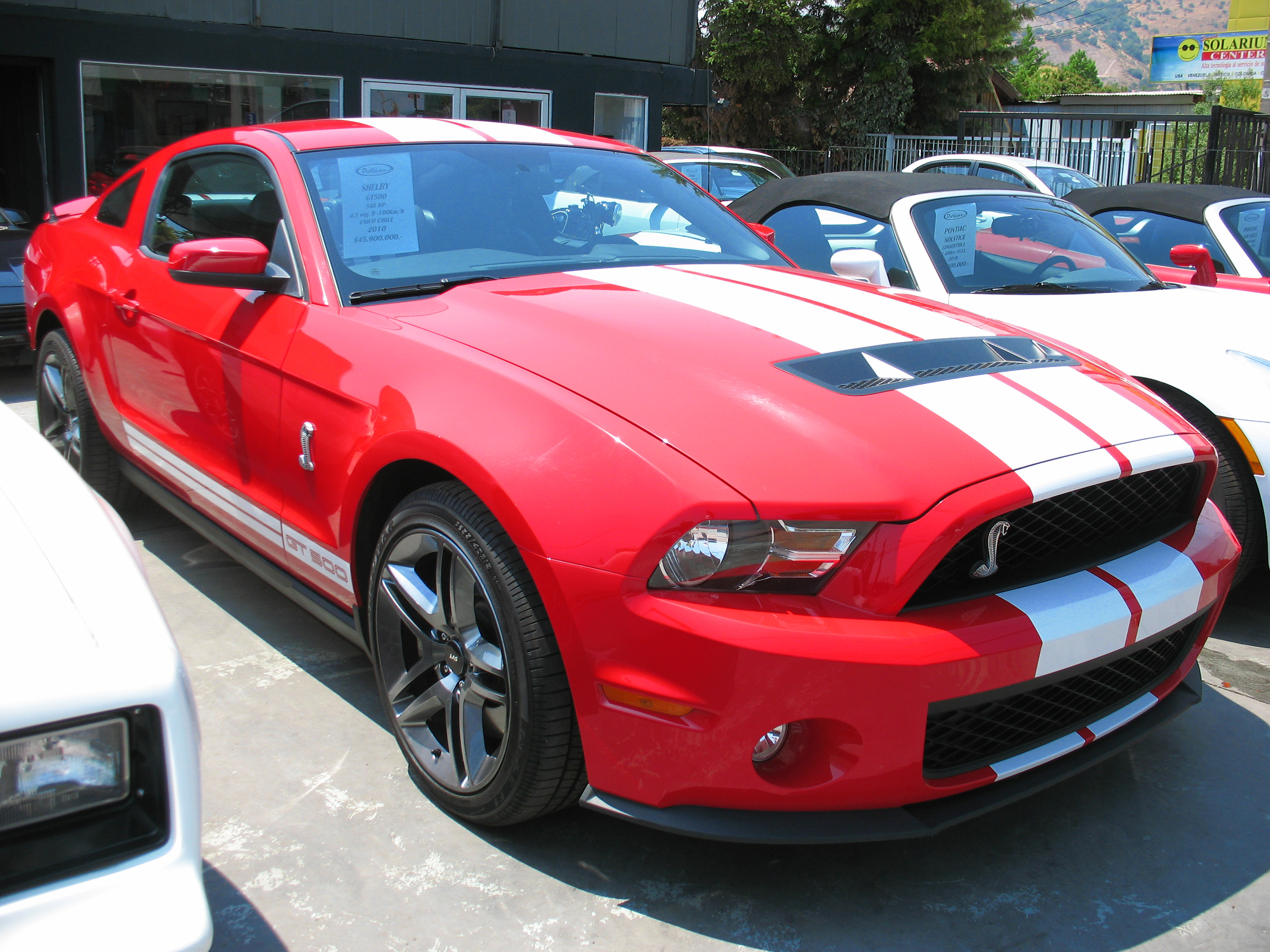 Ford Mustang Shelby GT 500 Cobra 2010